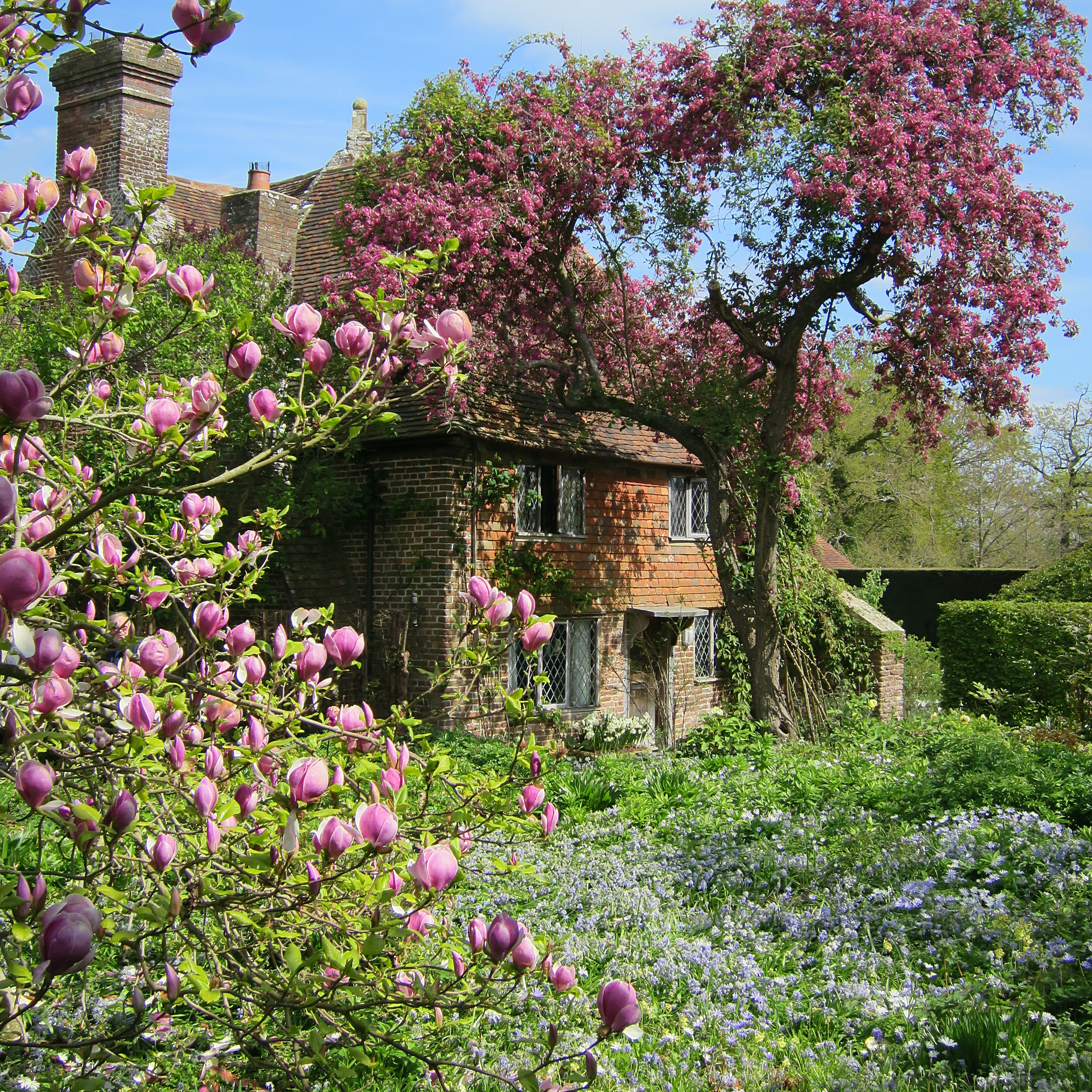 Priest House, Sissinghurst Castle